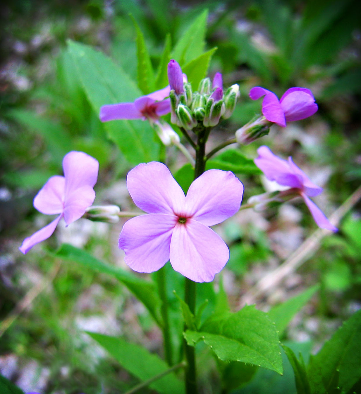 can anyone confirm or deny that this is Dame's Rocket?